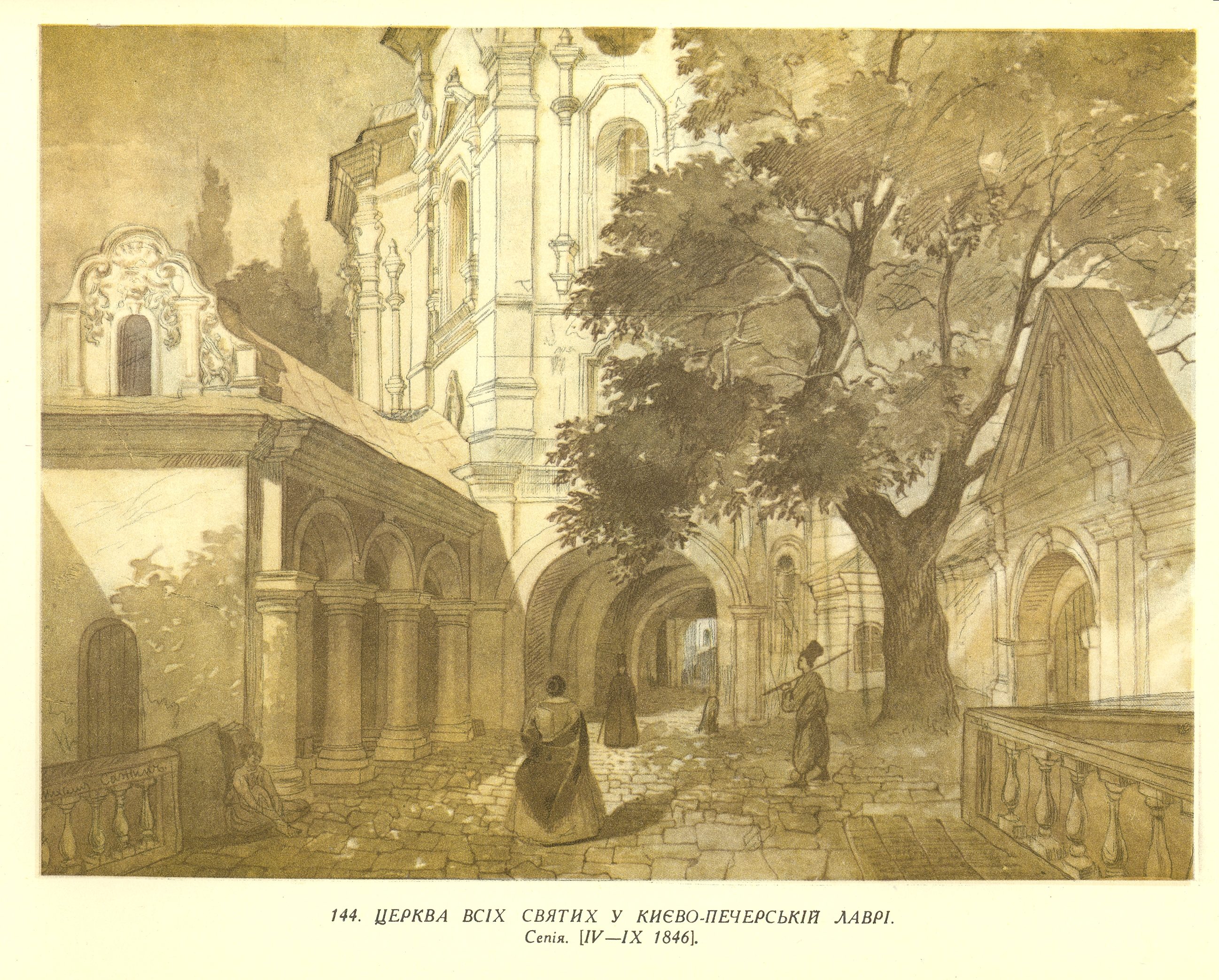 Painting of Taras Shevchenko